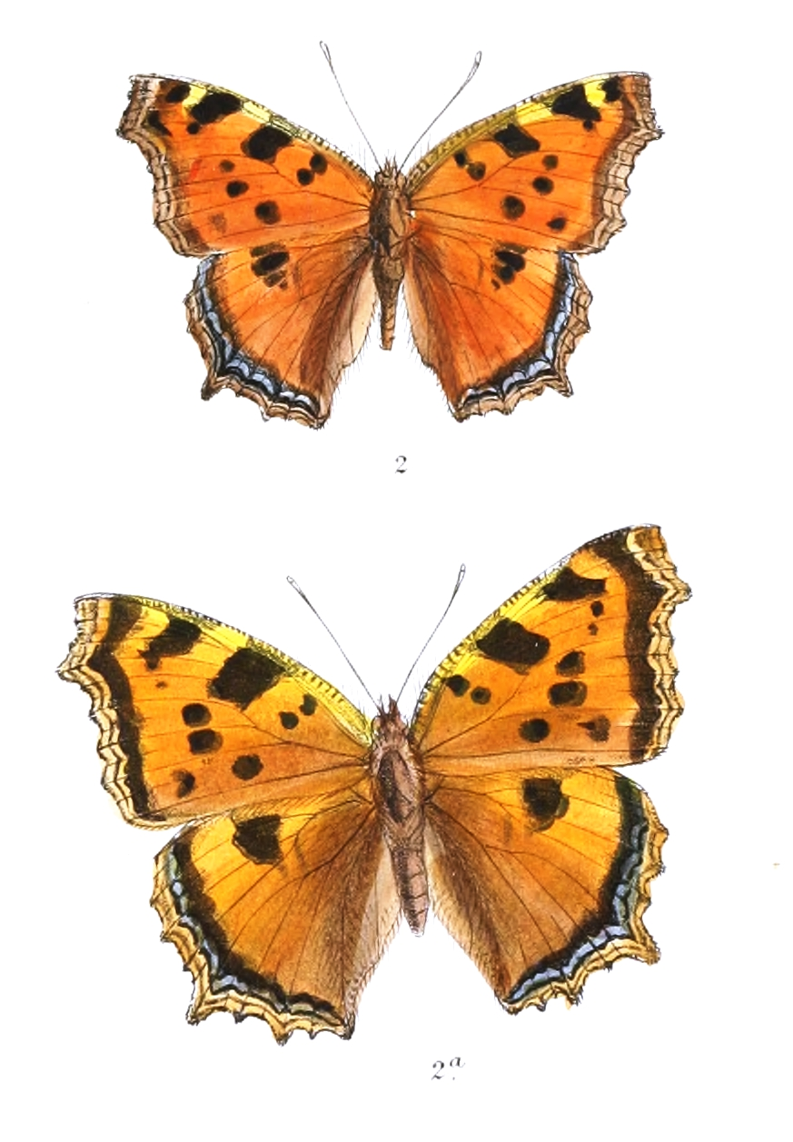 Eugonia xanthomelas = Nymphalis xanthomelas (male and female)